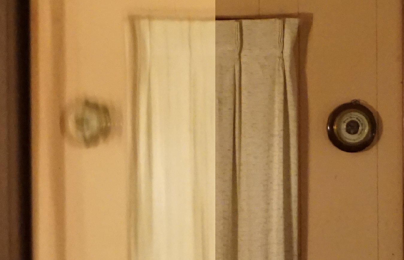 A household mirror, demonstrating distortion and artifacts in the image due to a low degree of flatness. The errors become more apparent when viewed at a steep angle or at long distances.